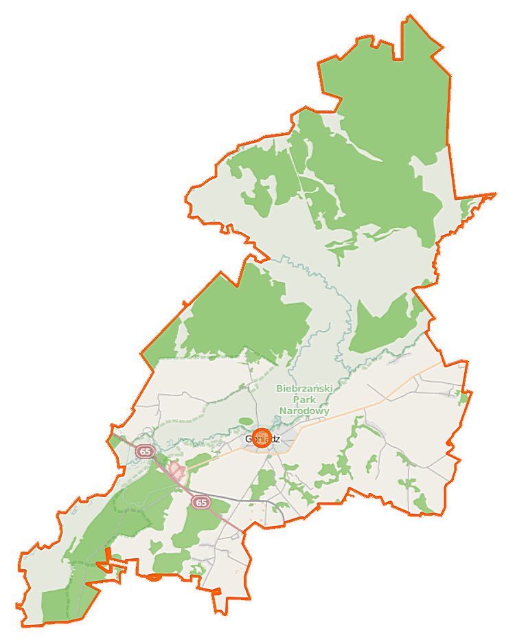 Map of Gmina Goniądz, Poland This map of Goniądz (gmina) was created from OpenStreetMap project data, collected by the community. This map may be incomplete, and may contain errors. Don't rely solely on it for navigation. Border coordinates53.697522.5233←↕→22.935353.3932